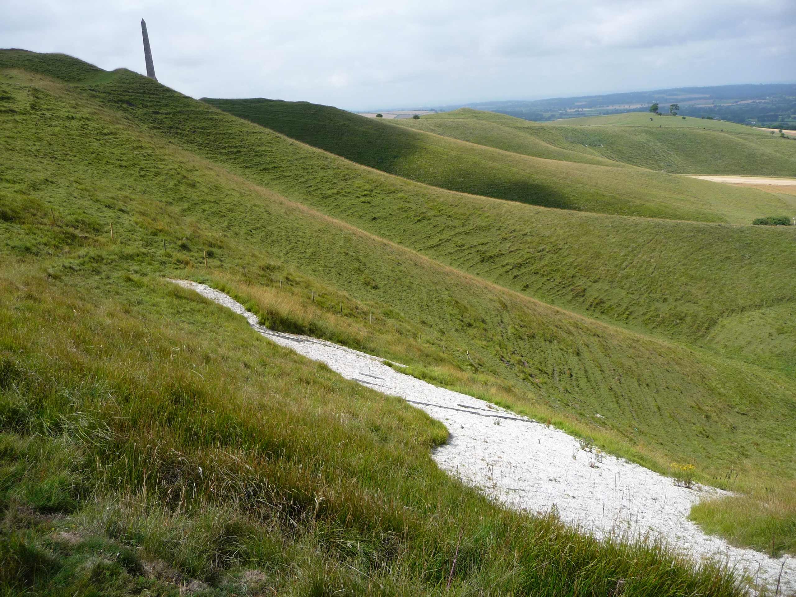 Cherhill